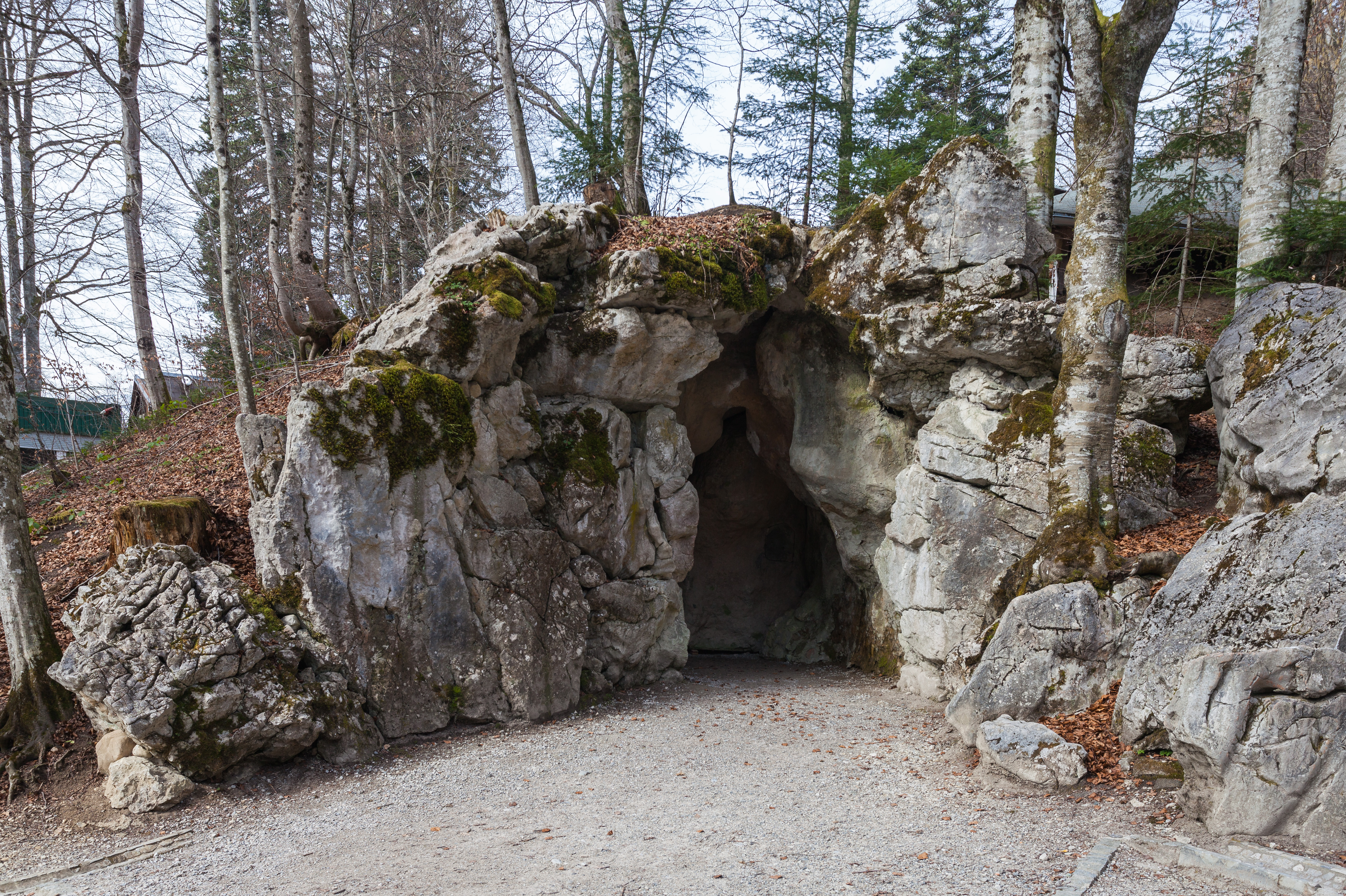 Venus grotto of the Linderhof Palace, Bavaria, Germany